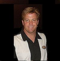 Automotive Designers Chip Foose and Greg Greeson at SEMA.